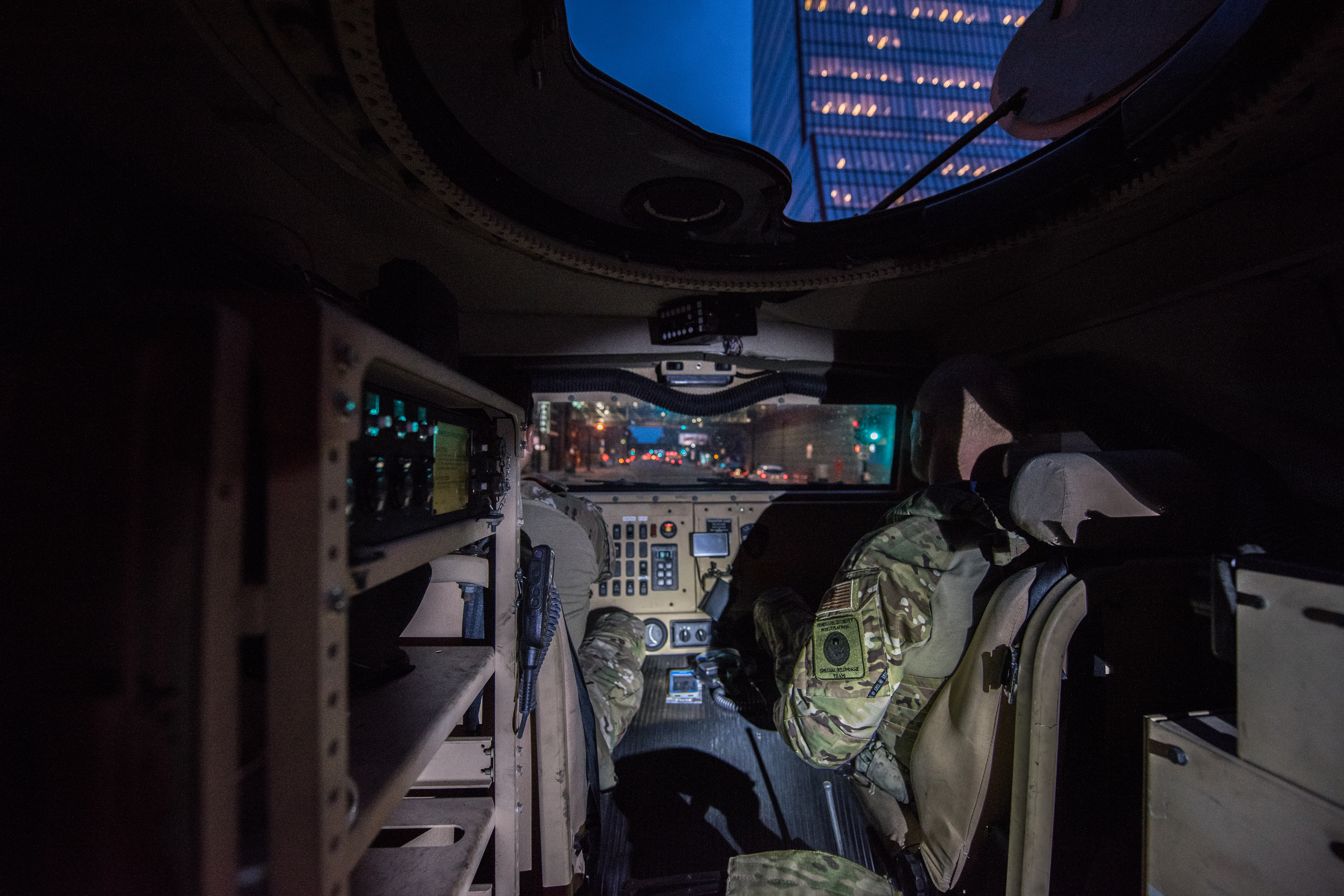 HSI SRT members have been providing security at the Super Bowl Experience at the Minneapolis Convention Center. At the Convention Center they have a Mine Resistant Ambush Protective (MRAP) vehicle. This vehicle is used to patrol the streets around the Convention Center and US Bank Stadium.